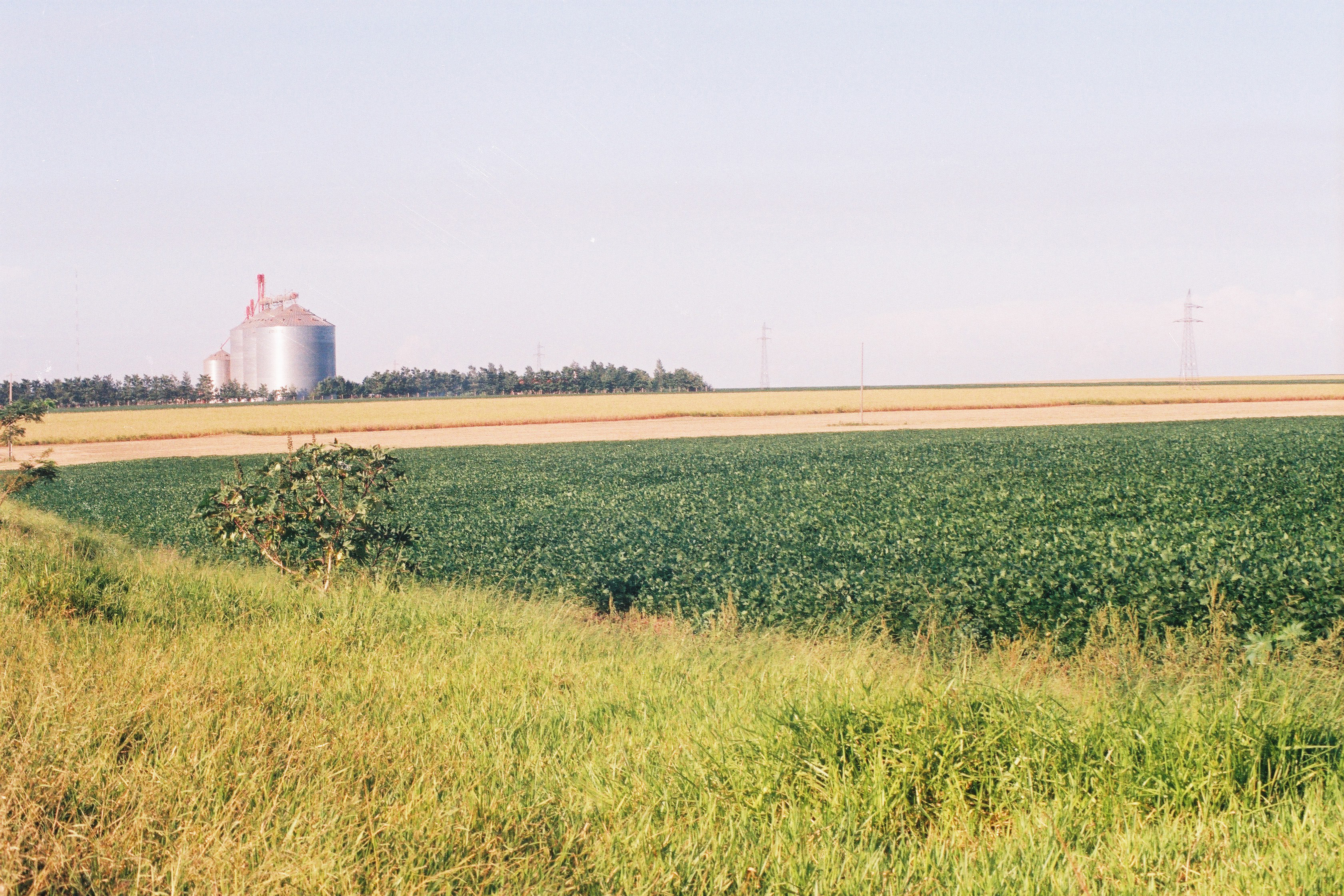 vista de sojales y silos de almacenamiento en Paraguay